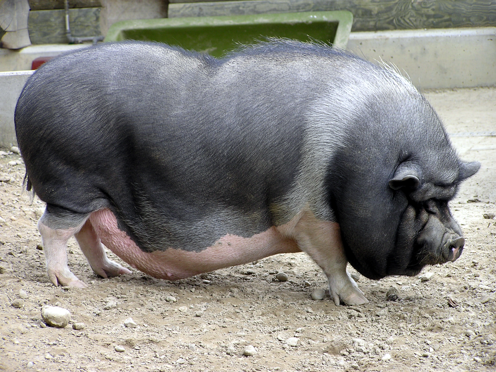 A pot-bellied pig in Solothurn, Switzerland. I took this photograph on October 2, 2004 with an Olympus C750 UZ digital camera.